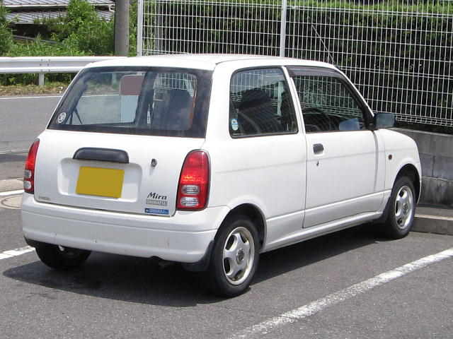 Daihatsu "Mira" van (5th generation)